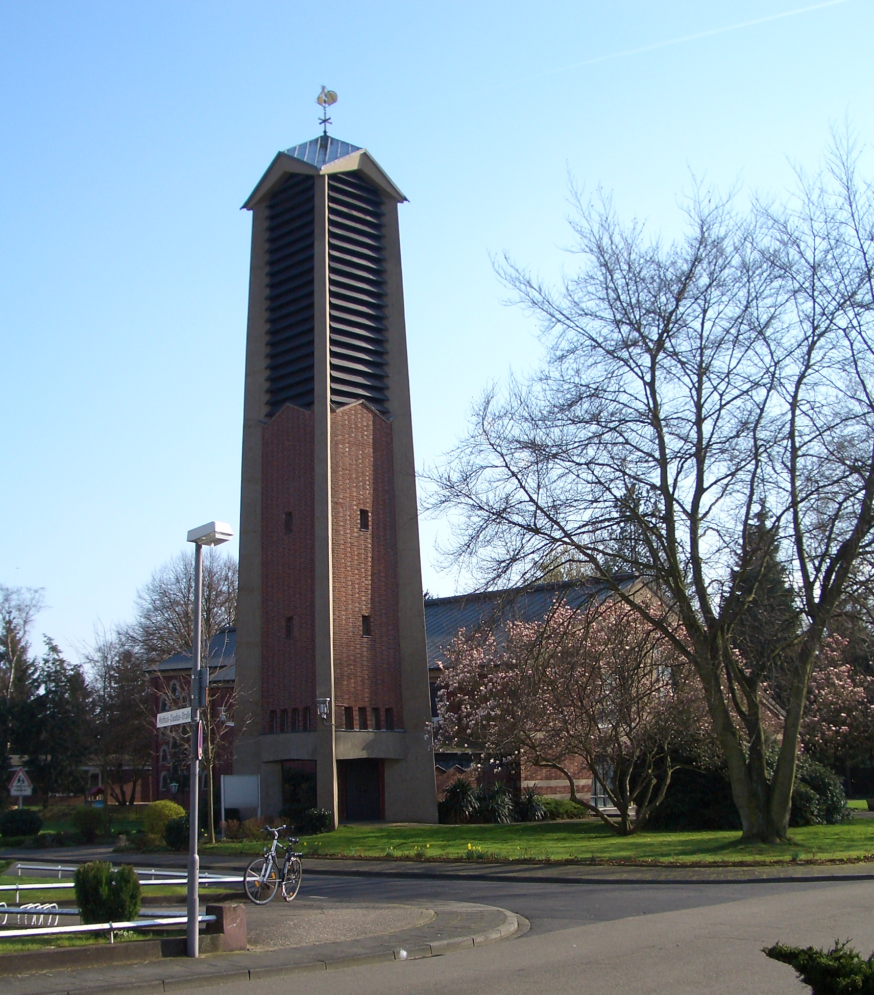 Photo of katholic church St. Maria Königin in Sankt Augustin-Ort, Germany.